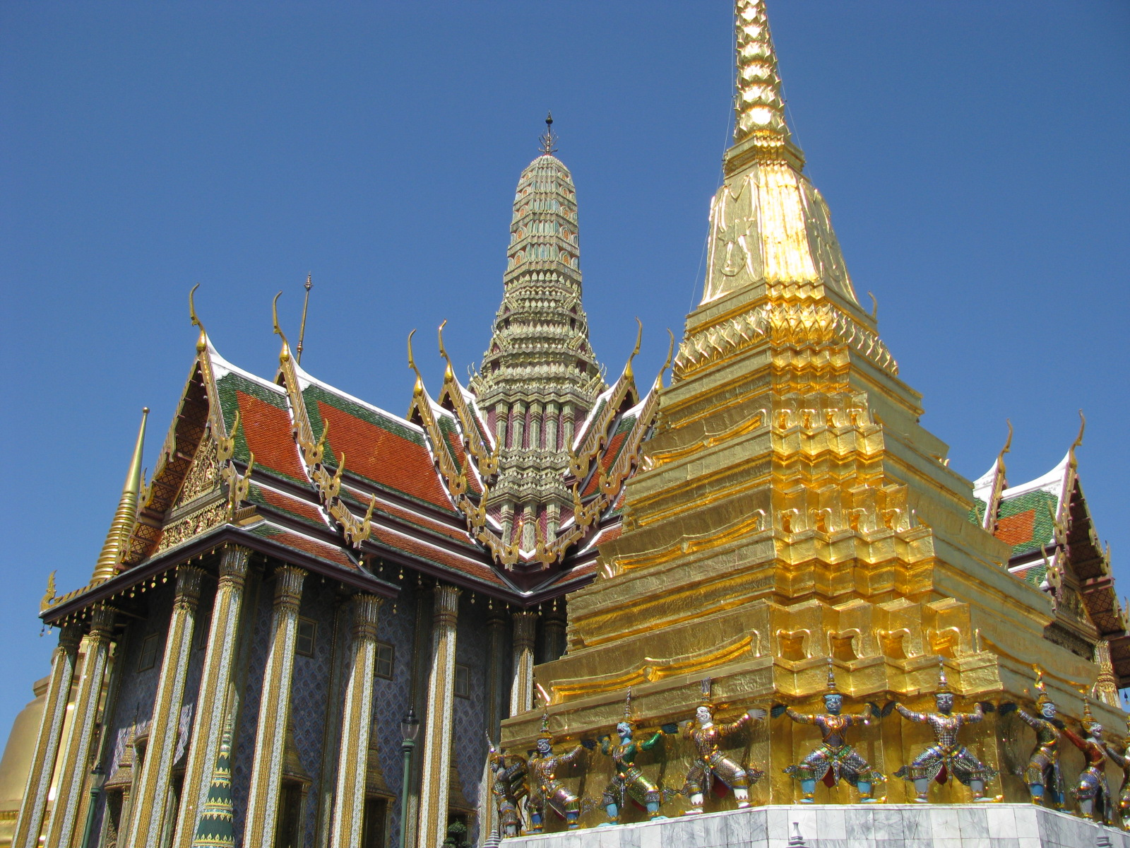 The Temple of the Emerald Buddha in Phra Nakhon, Bangkok, Thailand.